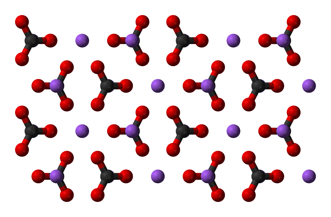 Ball-and-stick model of part of the crystal structure of the gamma polymorph of sodium carbonate, γ-Na2CO3. X-ray crystallographic data from Acta Cryst. (2003). B59, 337-352.